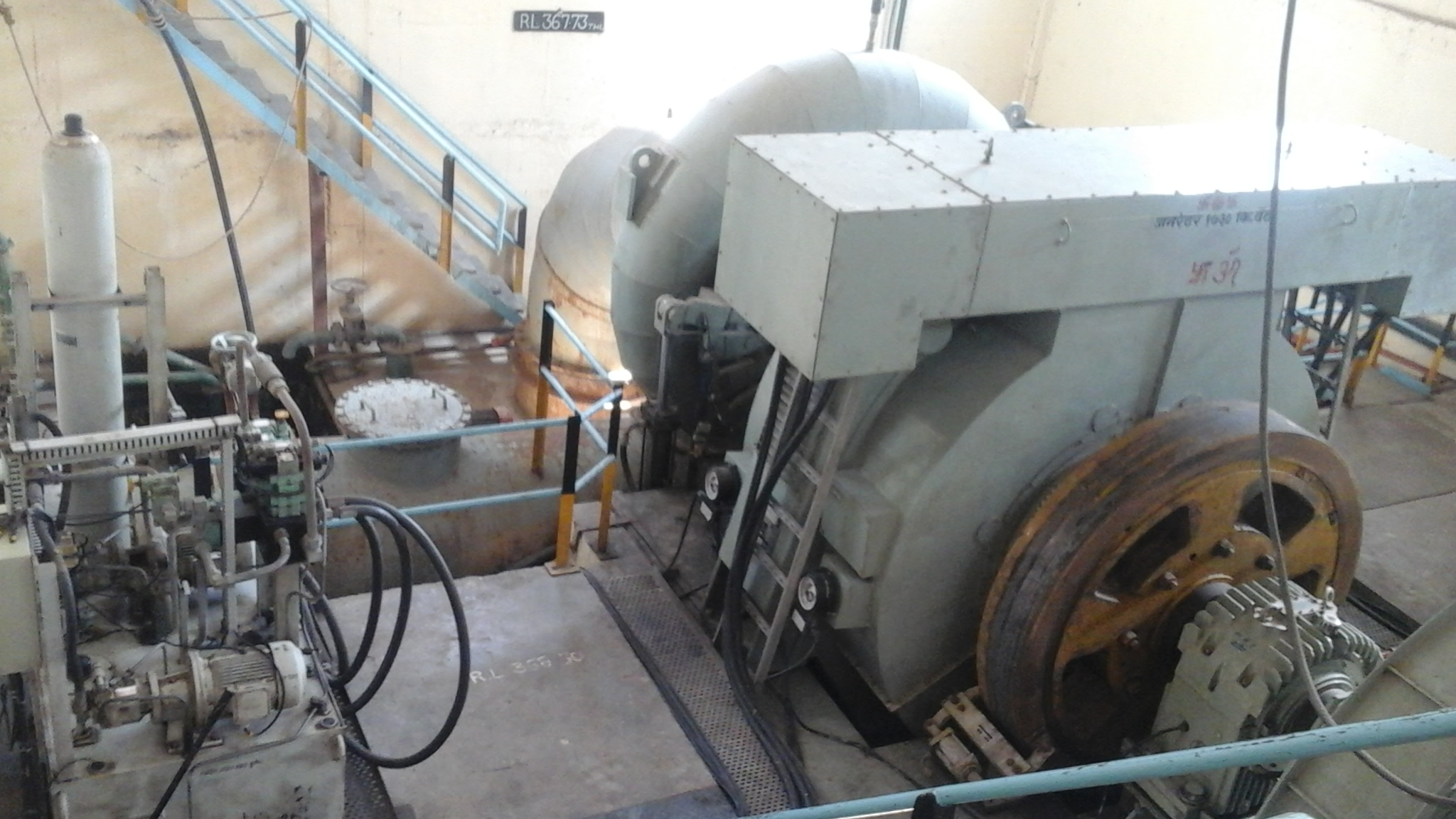 Wan hydro project generator turbine wan dam akola maharashtra